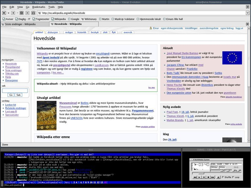 A screenshot with the window manager Ion.